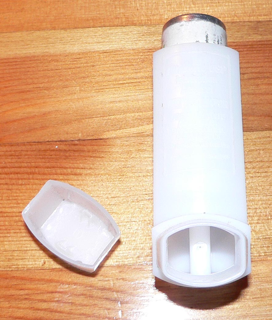 An asthma inhaler, used as a bronchodilator to control the symptoms of an asthma attack. Taken by Raul654 on December 27, 2004.